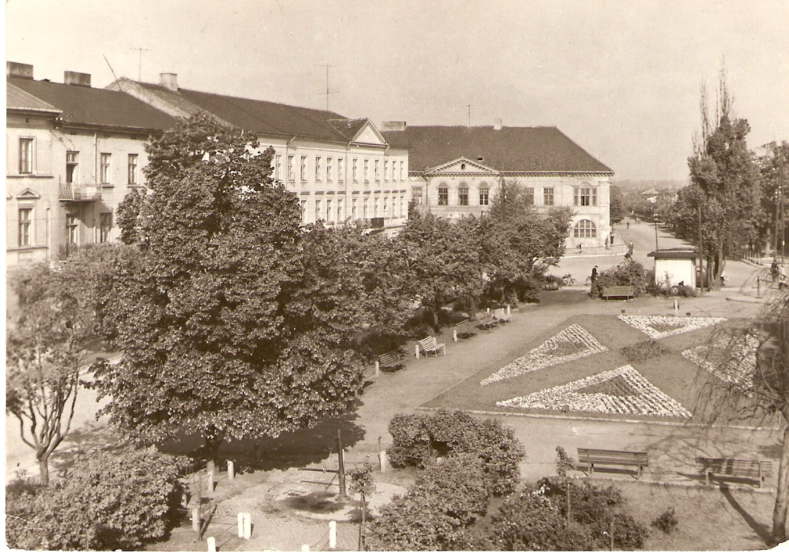 Postcard from Kutno, Poland.